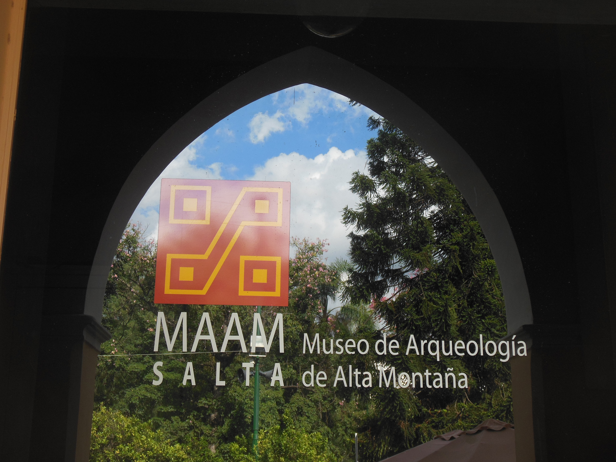 MAAM Salta (Argentina)